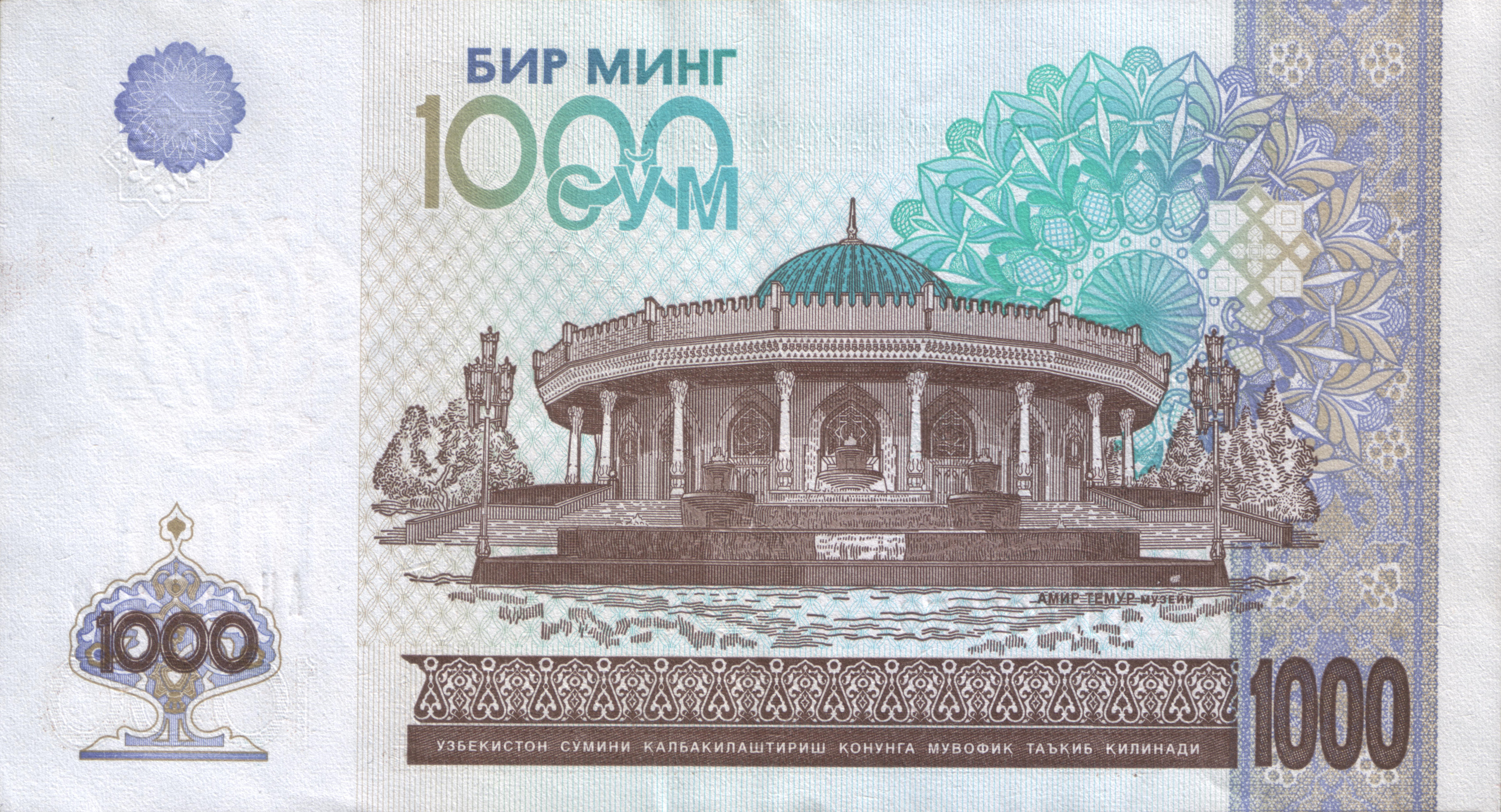 1000 sum of Uzbekistan (2001)